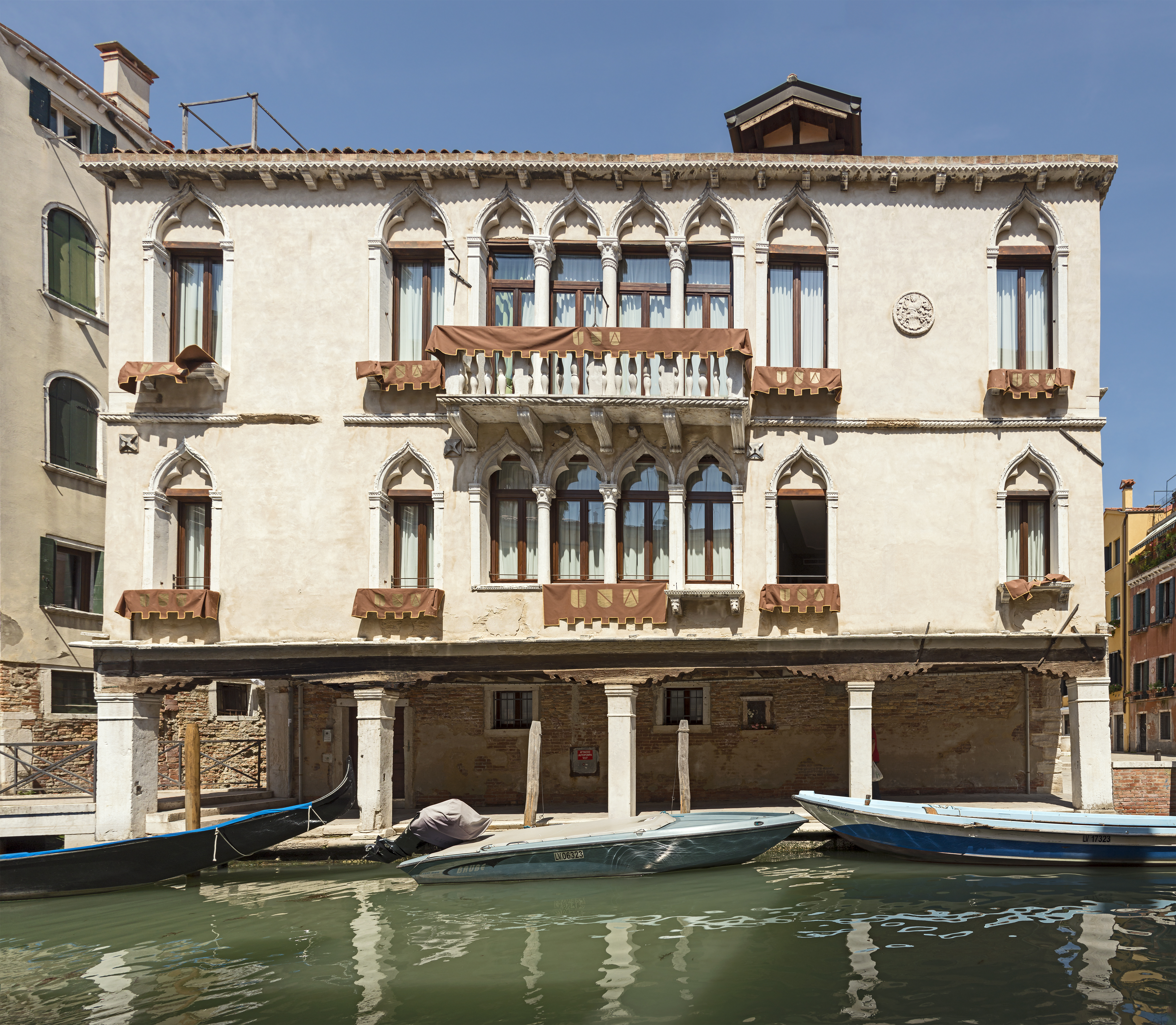 Palazzetto Benedetti in venice - Facade on Rio Priuli.